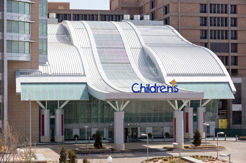 A view of the Atrium at The Children's Hospital at OU Medical Center. The Atrium at The Children's Hospital at OU Medical Center and OU Children's Physicians.